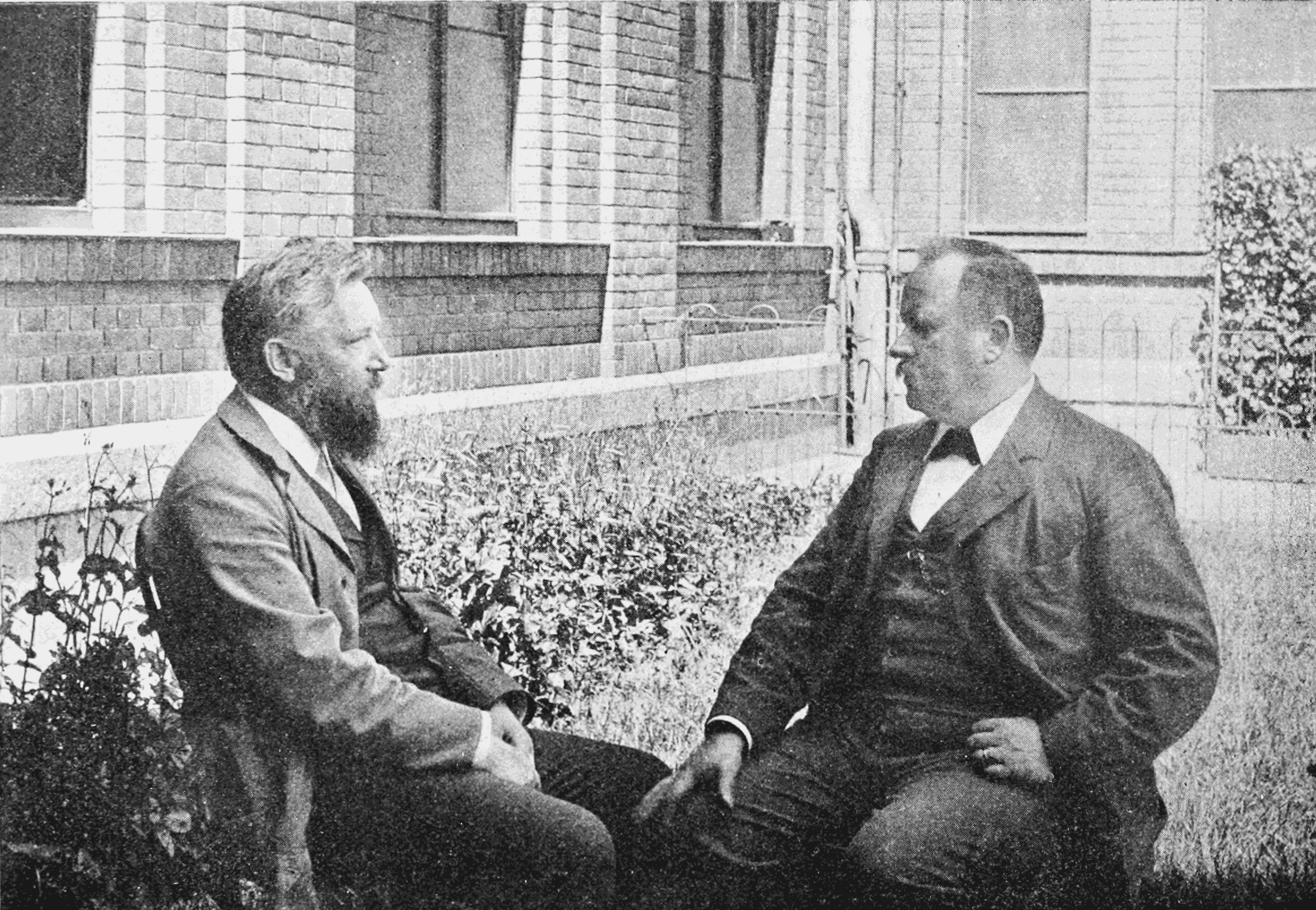 Wilhelm Ostwald (* 21. Augustjul./ 2. Septembergreg. 1853 in Riga; † 4. April 1932 in Leipzig) and Arrhenius